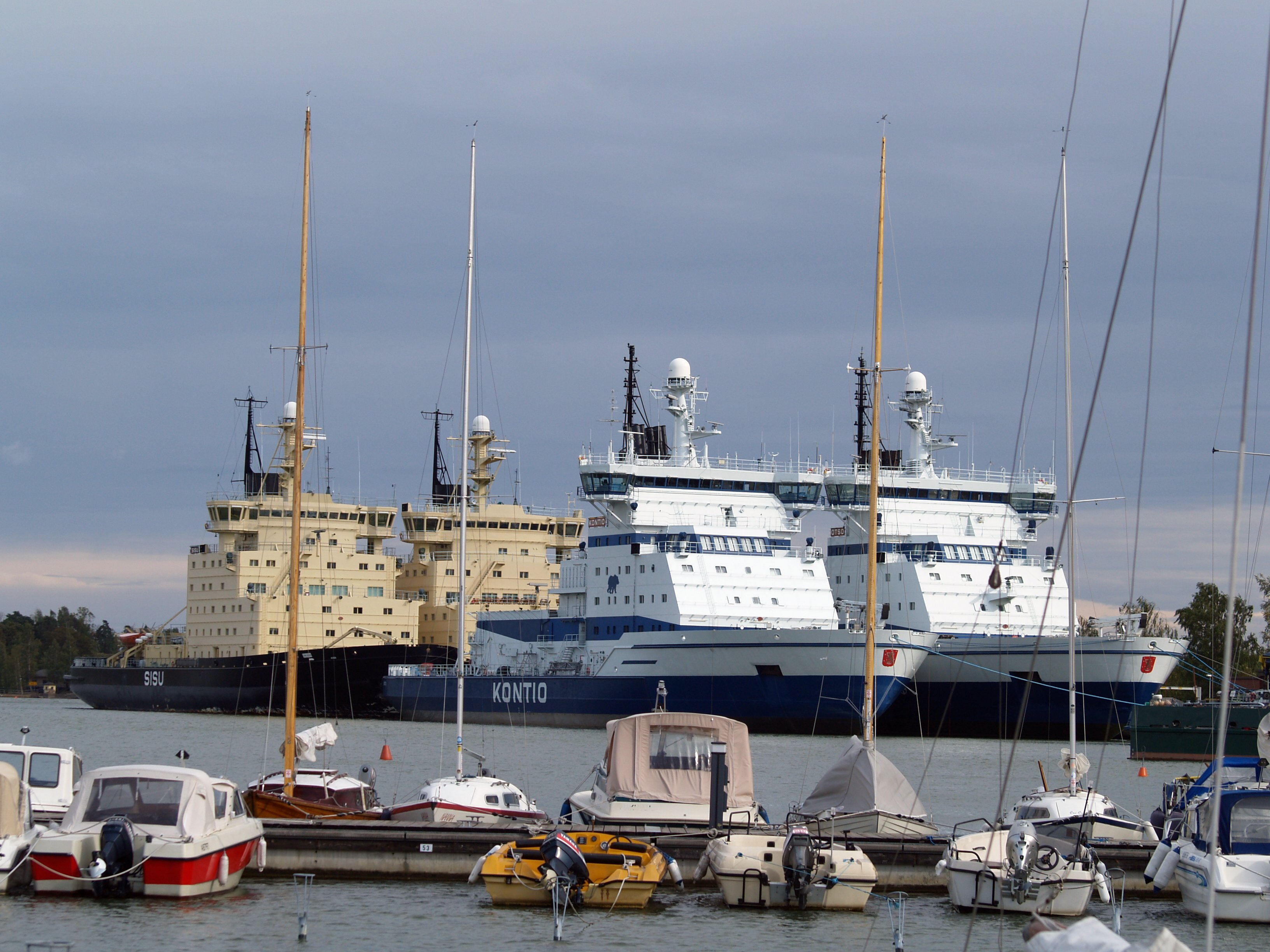 Finnish icebreakers in Helsinki. Kontio (left) and Otso (right) on the foreground and Sisu (left) and Urho (right) behind them. The following is the author's description of the photograph quoted directly from the photograph's Flickr page."IMO number : 8518120 Name of ship : KONTIO Call Sign : OIRV Gross tonnage : 7066 Type of ship : Icebreaker Year of build : 1987 Flag : Finland Status of ship : In Service "